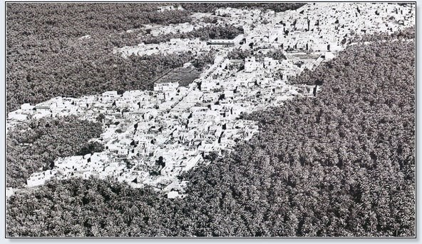 Aerial View of Satellite towns (Shuwaika, Kuwaikib, Dbeibiya..etc) South of the Qatif Fortified City(appearing in the top of the image). The picture was taken in 1955 from Aramco Archives.